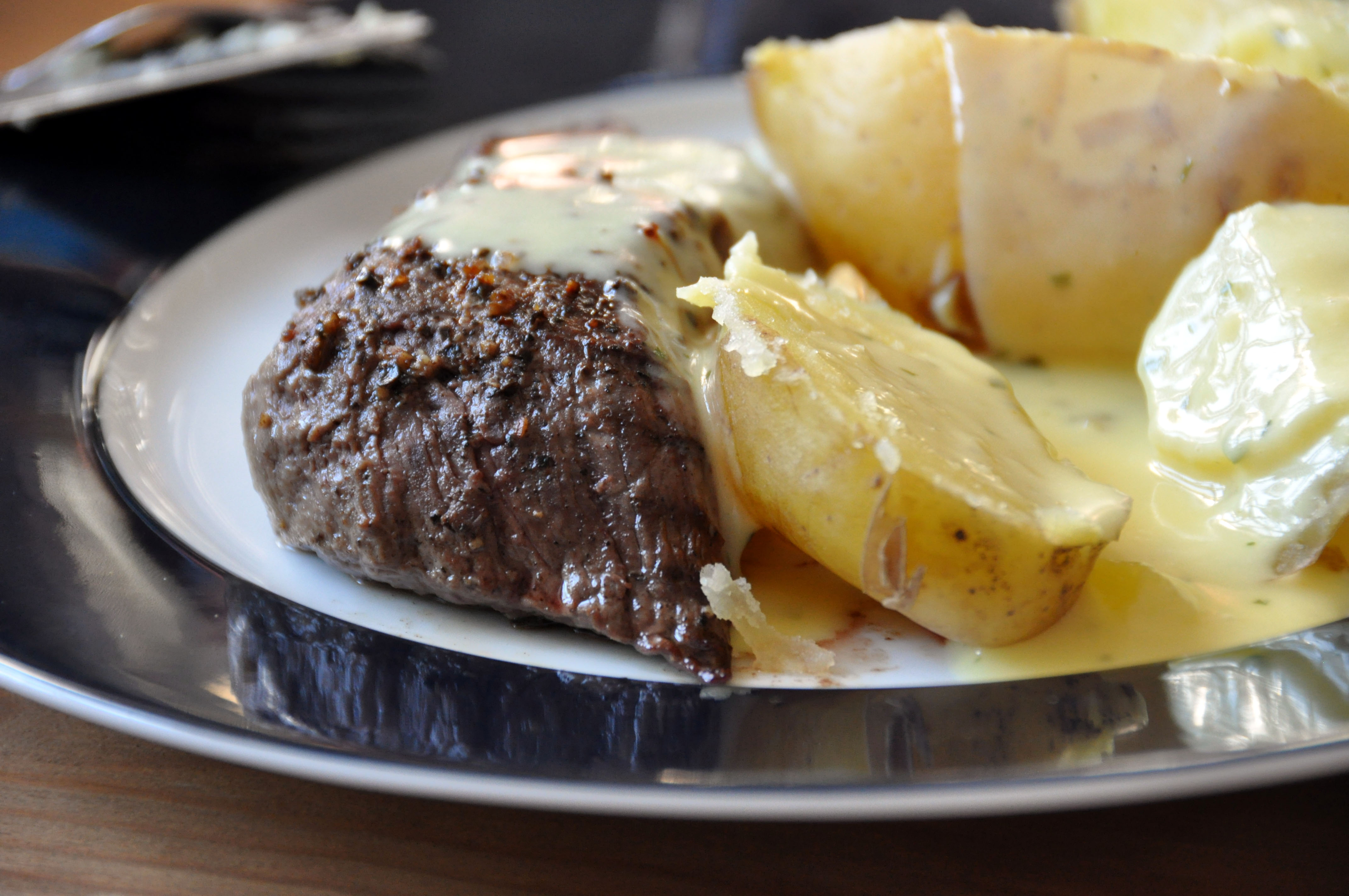 Bøf bearnaise